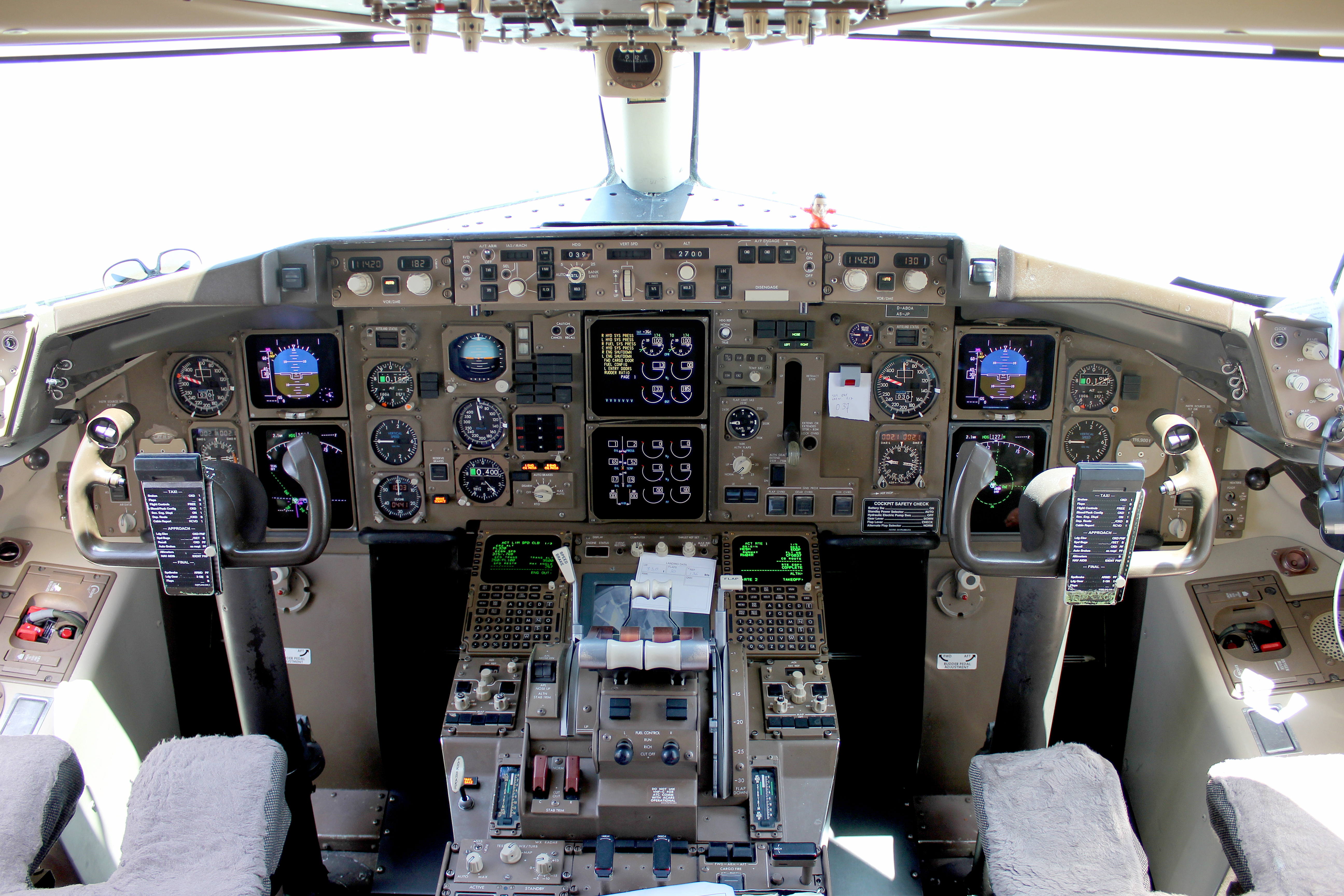 Cockpit view of a Boeing 757-300 by Condor (registration D-ABOA)